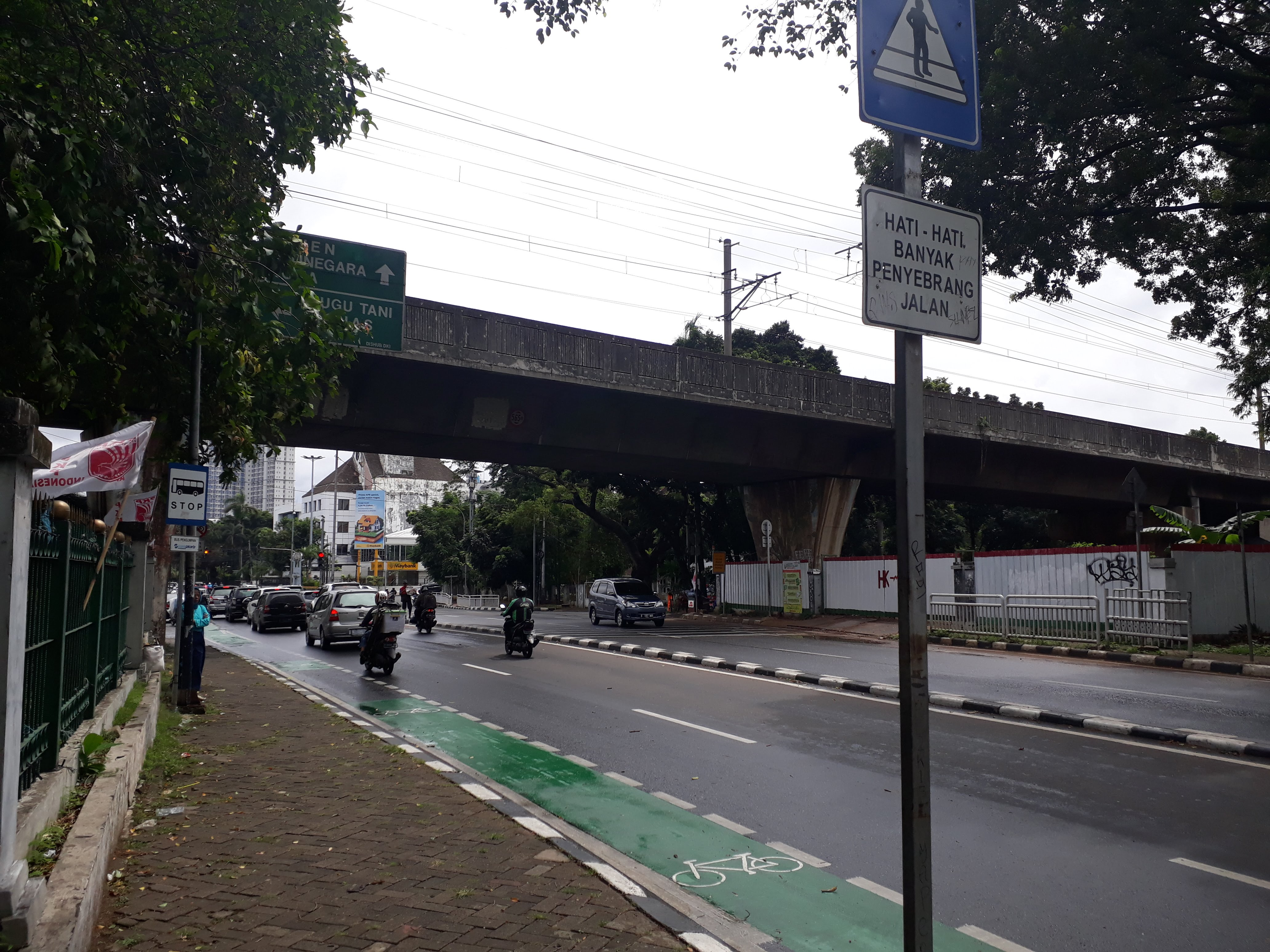 Cikini Rail Bridge, Jakarta, Indonesia